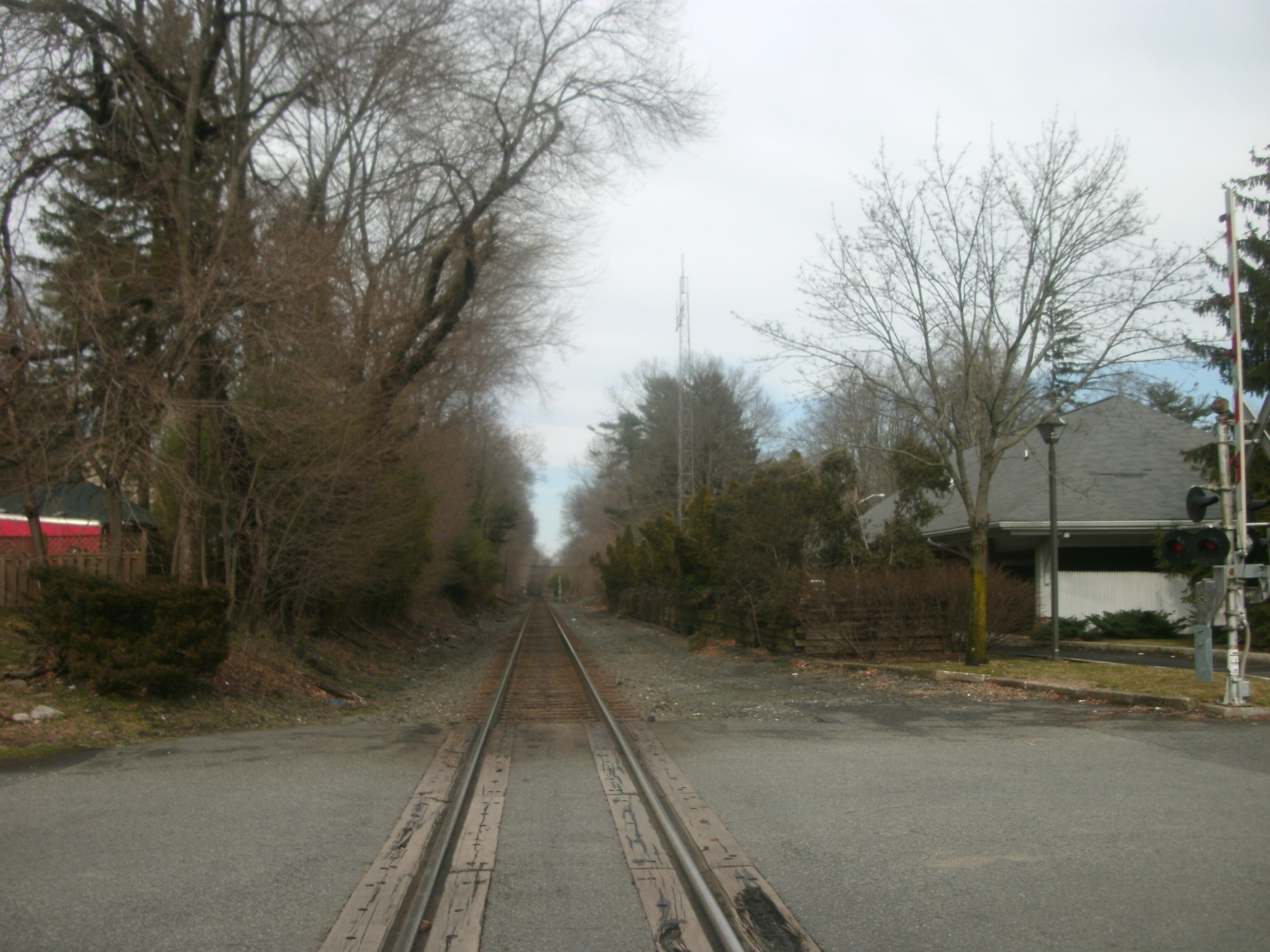 The former station at Harrington Park, New Jersey along the former West Shore Railroad is visible on the east side of the tracks.